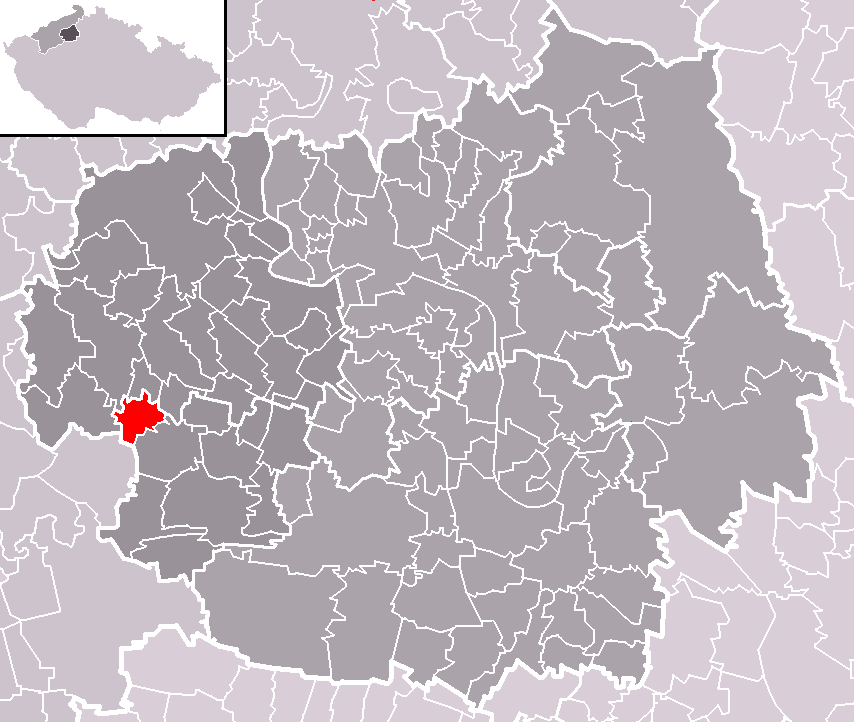 Location of Lkáň municipality within Litoměřice District and administrative area of Lovosice as a Municipality with Extended Competence.